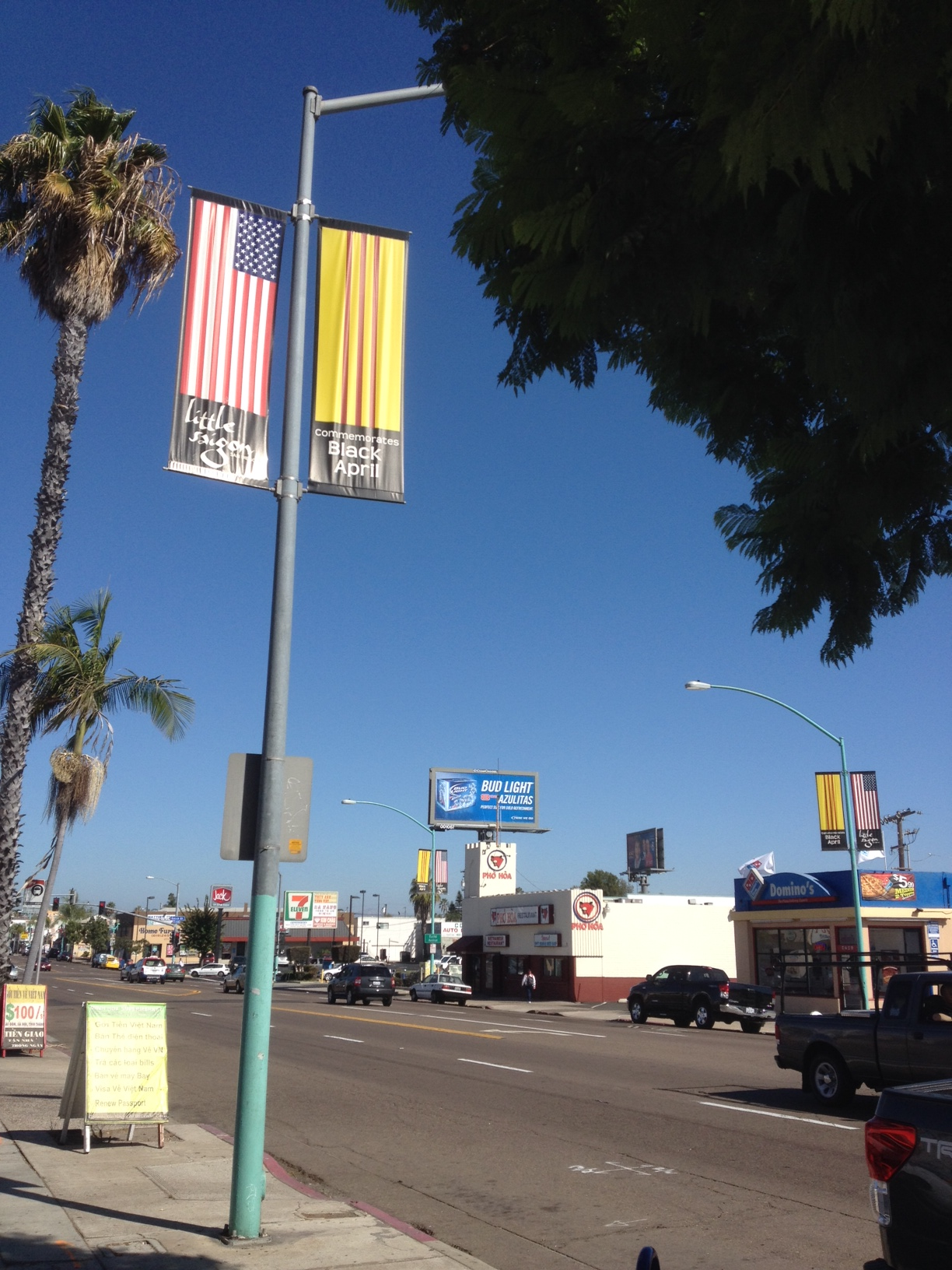 Black April banners in San Diego's Little Saigon